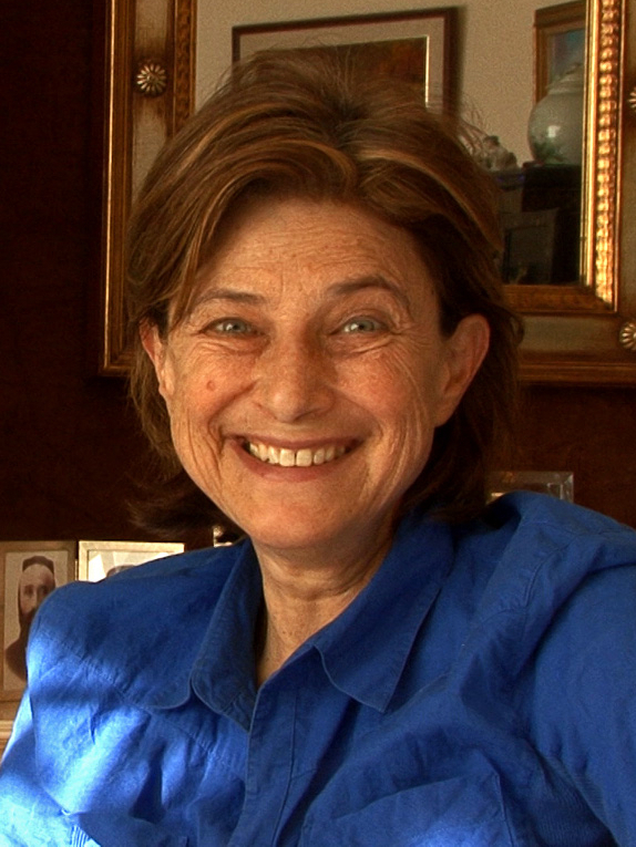 Still from the video Chantal Akerman - Too Far, Too Close